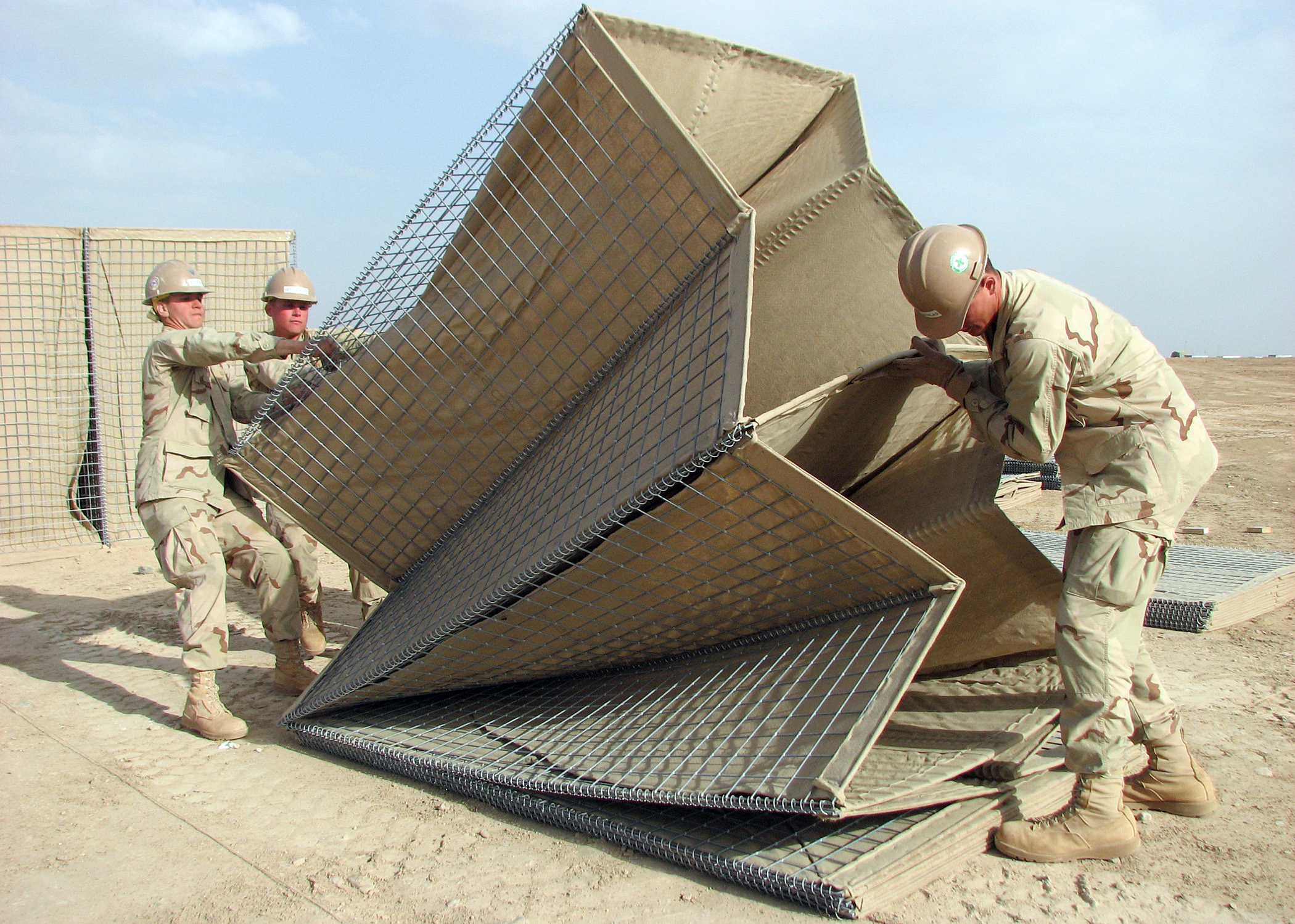 HELMAND PROVINCE, Afghanistan (April 11, 2009) Seabees assigned to Naval Mobile Construction Battalion (NMCB) 5 lift a HESCO barrier into alignment during a project at Camp Bastion. NMCB-5 is deployed to Afghanistan providing contingency construction support to allies and members of the NATO International Security Assistance Force (ISAF). NMCB-5 is one of the Naval Expeditionary Combat Command warfighting support elements providing host nation contingency construction support and security. (U.S. Navy Photo by Mass Communication Specialist 2nd Class Patrick W. Mullen III/Released)